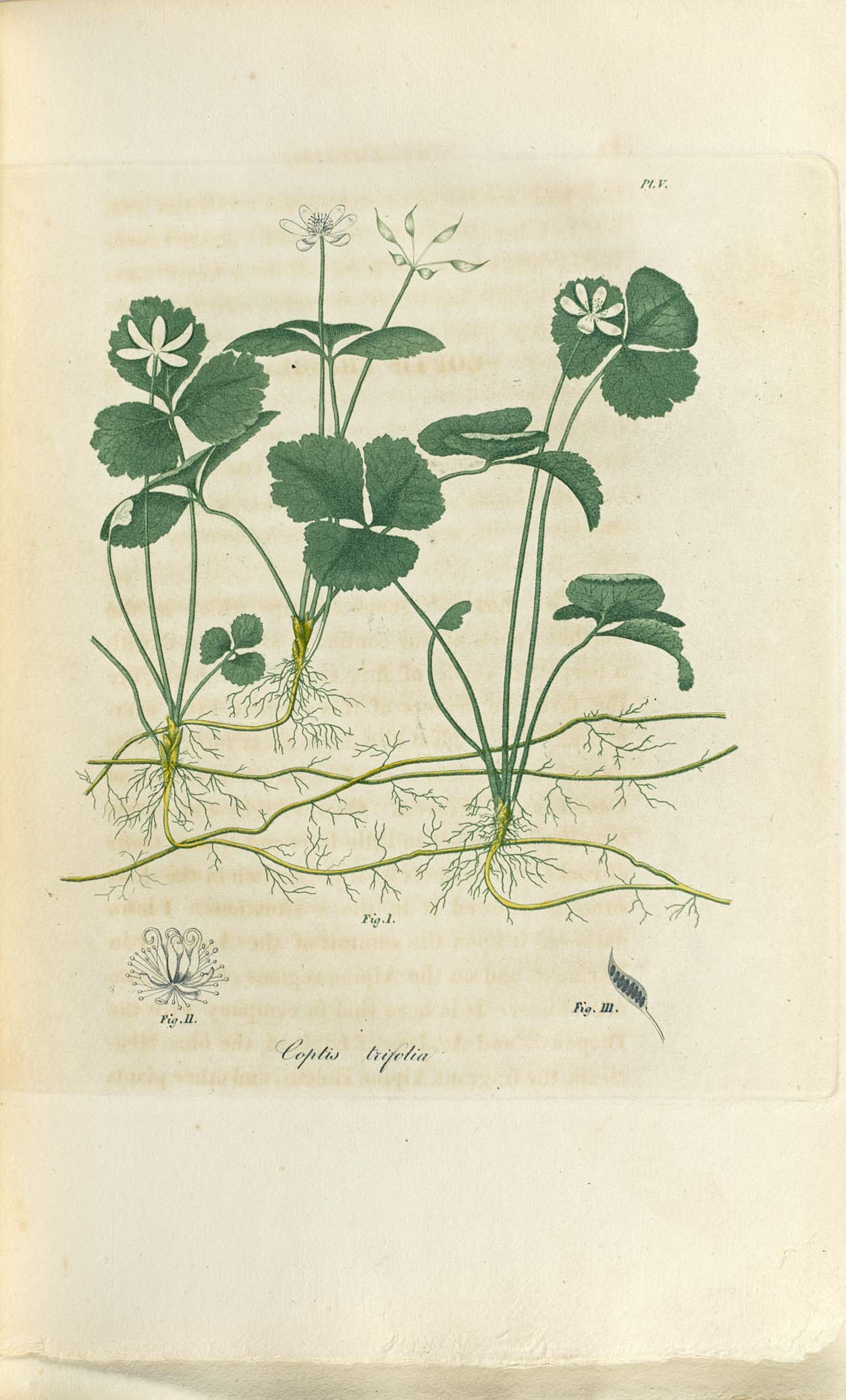 Plate V To view the entire book, please visit American Medical Botany.